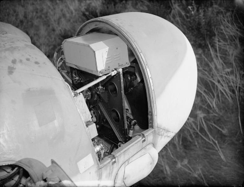 Royal Air Force Radar, 1939-1945. Airborne Interception Radar: AI Mark VIIIB installed in the nose of a De Havilland Mosquito NF Mark XIII night fighter. The transmitter box is at the top, mounted above the scanner hydraulic motor assembly. The rotating scanner is contained in the perspex nose. Photograph taken at No. 10 Maintenance Unit, Hullavington, Wiltshire.